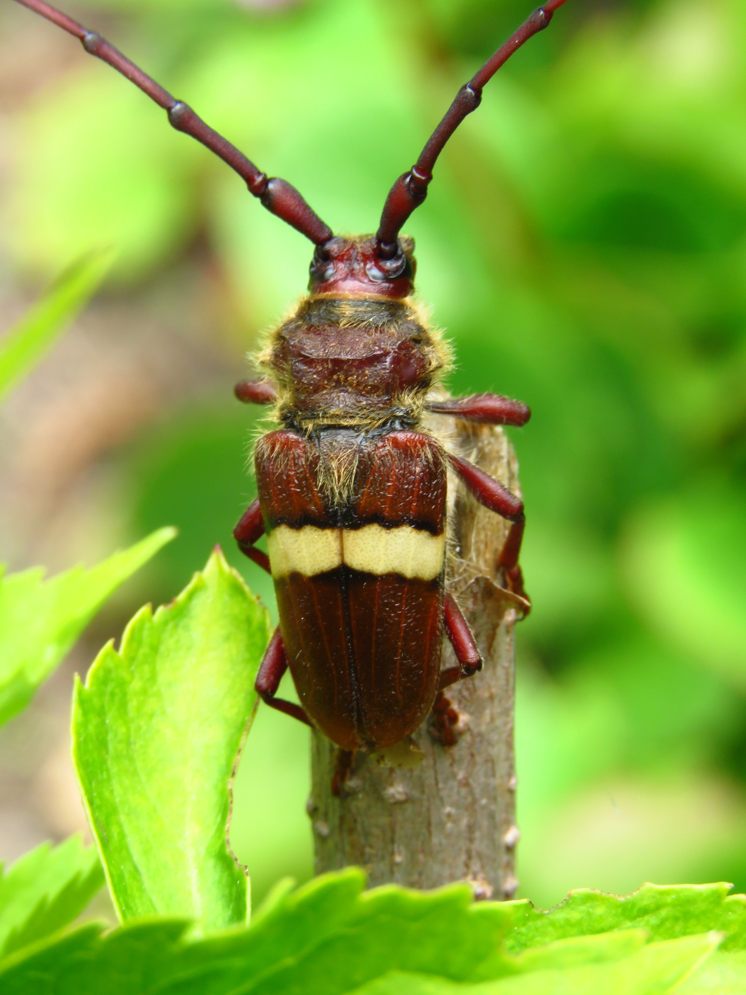 Deretrachys juvencus. Species of insect.